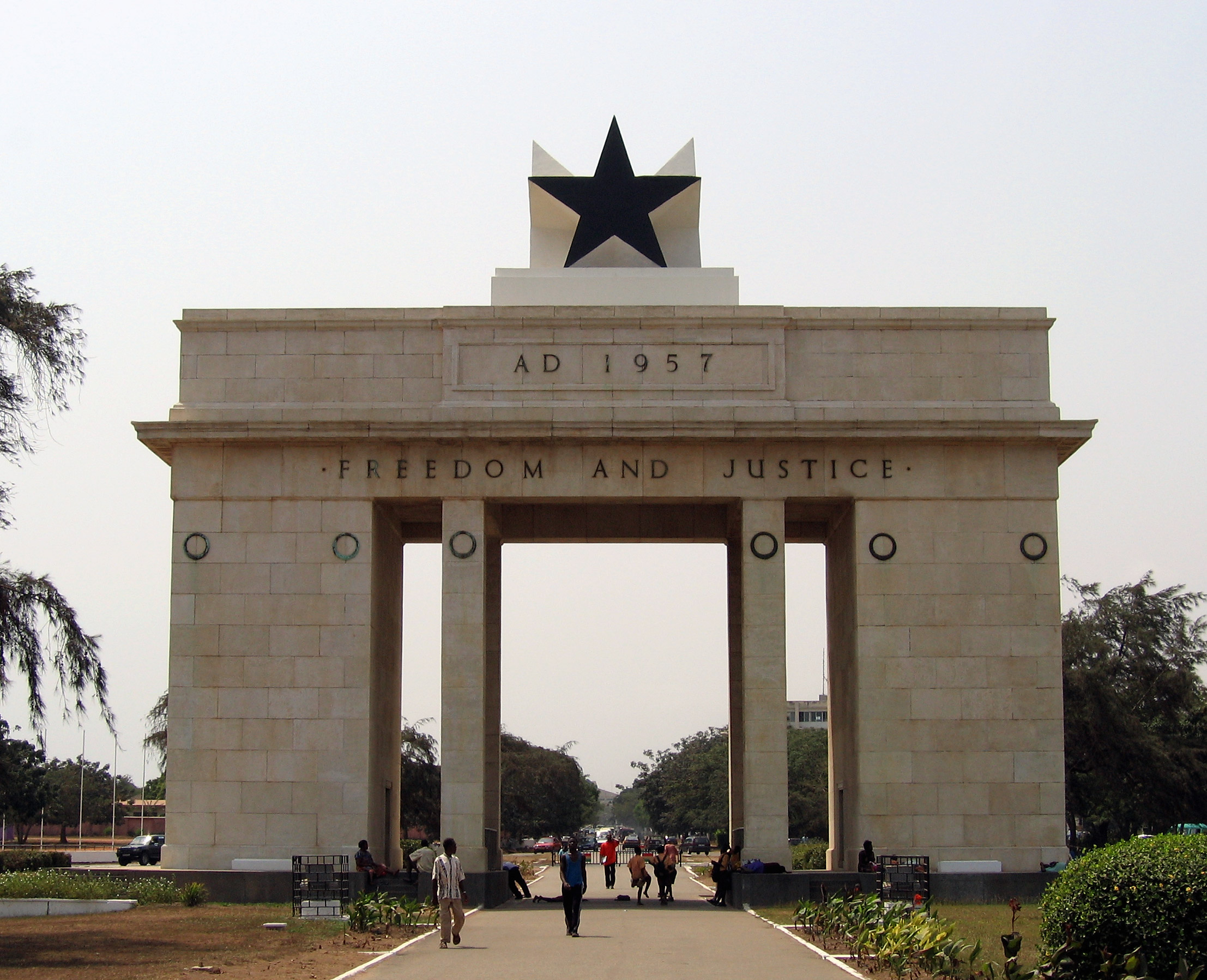 Independence Arch, Accra, Ghana